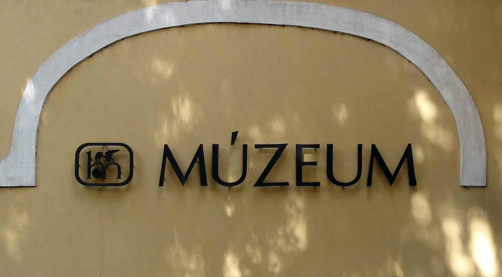 Exhibition Hall of the Herman Ottó Museum, Inscription, Miskolc, Hungary